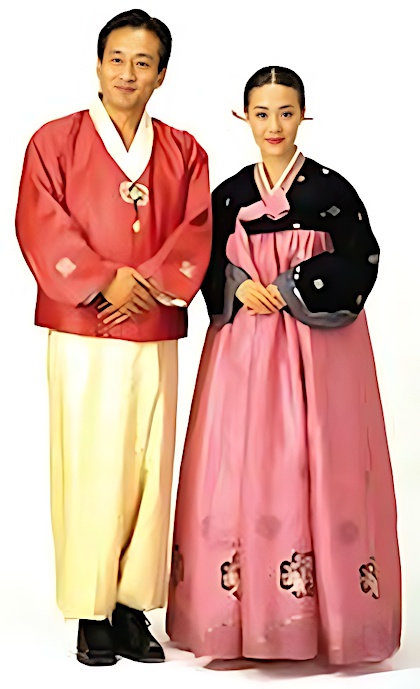 Koreans weaved cloth with hemp and arrowroot and raised silkworms to produce silk. During the Three Kingdoms period, men wore jeogori (jacket), baji (trousers), and durumagi (overcoat) with a hat, belt and pair of shoes. The women wore jeogori (short jacket) with two long ribbons tied to form an otgoreum (knot), a full length, high-waist wrap-around skirt called chima, a durumagi, beoseon (white cotton socks), and boat-shaped shoes. This attire, known as Hanbok, has been handed down in the same form for men and women for hundreds of years with little change except for the length of the jeogori and chima. Western wear entered Korea during the Korean War (1950-53), and during the rapid industrialization in the 1960s and 1970s, Hanbok use declined, being regarded as inappropriate for casual wear. Recently, however, Hanbok lovers have been campaigning to revitalize Hanbok and have updated styles to better fit modern work environments. A few Koreans still wear traditional Hanbok but usually only on special holidays like Seollal and Chuseok and family festivities such as Hwangap, the celebration for parents turning 60.